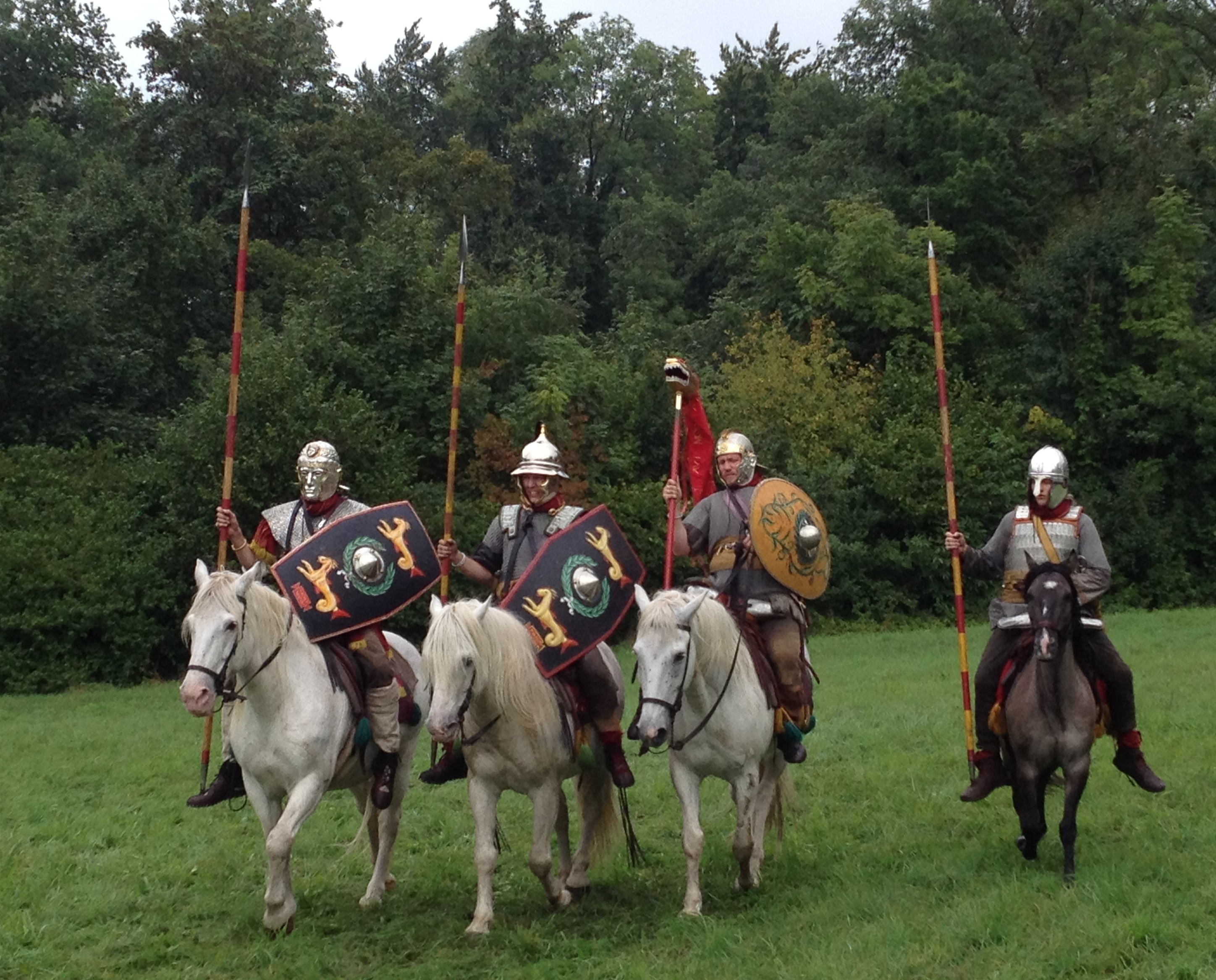 Roman Cavalry Reenactment - Roman Festival at Augusta Raurica - August 2013-025